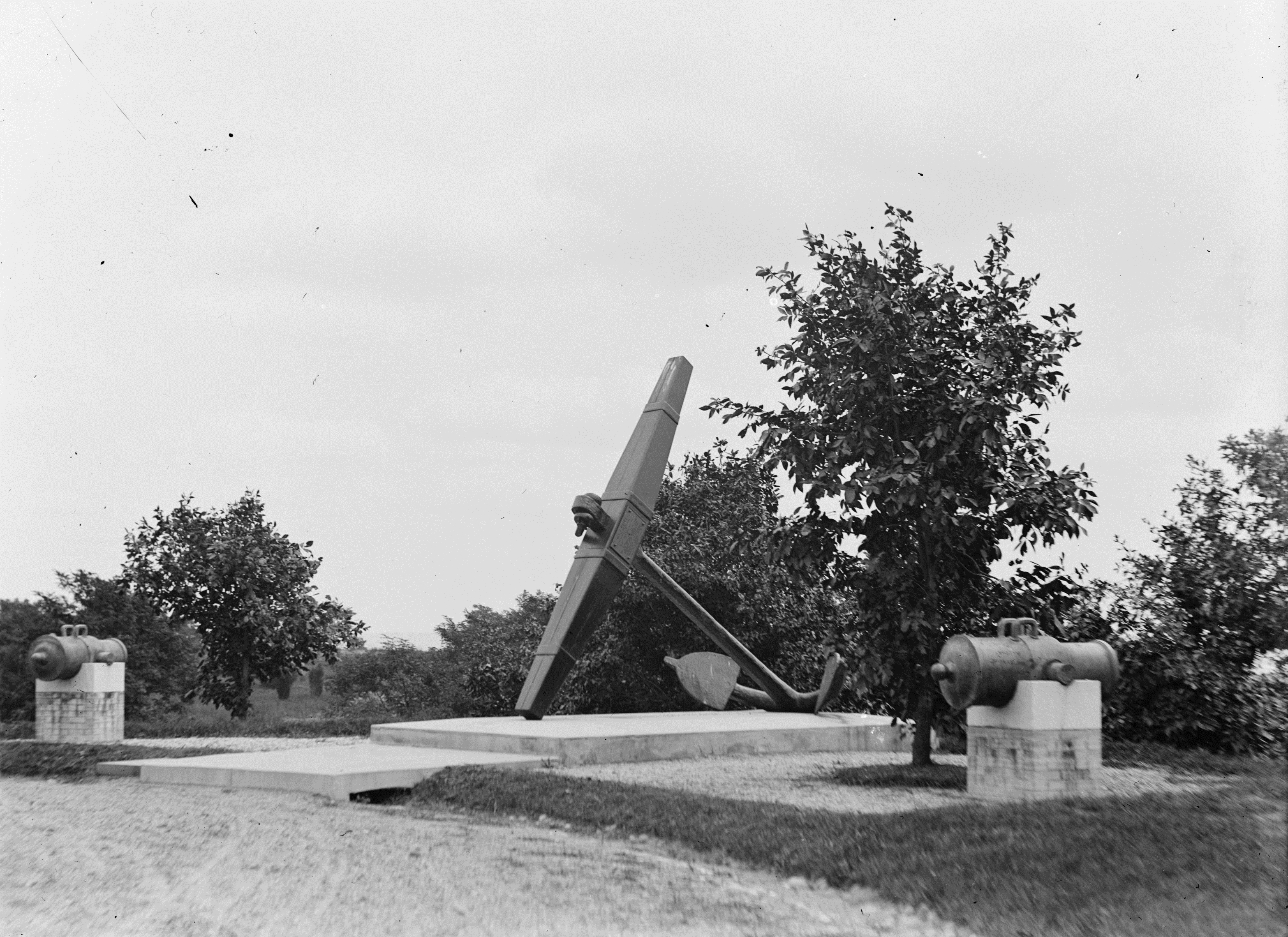 The USS Maine memorial at Arlington National Cemetery in Arlington County, Virginia, in the United States some time prior to 1915. The USS Maine blew up under mysterious circumstances in Havana Harbor, Cuba, on February 15, 1898. Its destruction led directly to the Spanish-American War. Most of the ship's dead were interred in Colon Cemetery, Havana, Cuba. But in December 1899, the United States repatriated the Maine dead and reburied them in Arlington National Cemetery. In the late spring of 1900, the cemetery erected an anchor (made specially for the cemetery) and placed it on a concrete base near the area where the Maine dead were buried. Two bronze Spanish mortars cast in the 18th century (and captured by Admiral George Dewey from Cavite Arsenal, The Philippines, during the Spanish-American War) were placed on brick piers on either side of the anchor. In 1911-1912, the USS Maine was raised from Havana Harbor, and additional bodies retrieved. The ship was sunk at sea. The bodies were interred alongside the other Maine dead, and in 1915 a new memorial in the shape of a battleship gun turret was built next to the mortars and anchor. The actual main mast of the USS Maine jutted from the top of this new memorial. This photo was taken prior to the 1915 addition, as is noted by the lack of carved granite and concrete balustrade.